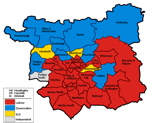 Ward map of Leeds City Council with political colouring for the 1988 election.